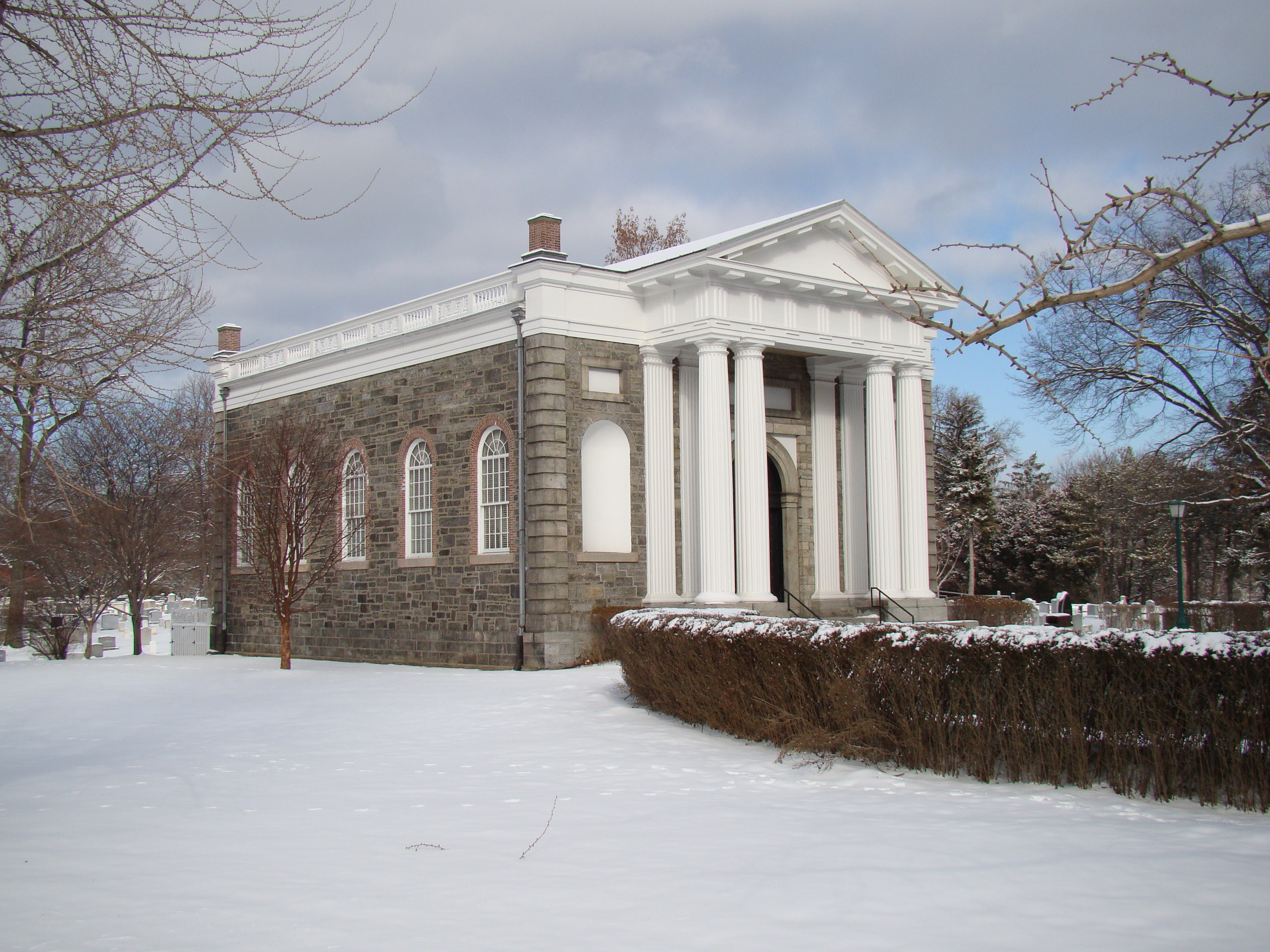 The Old Cadet Chapel at West Point located just inside the entrance of the West Point Cemetary